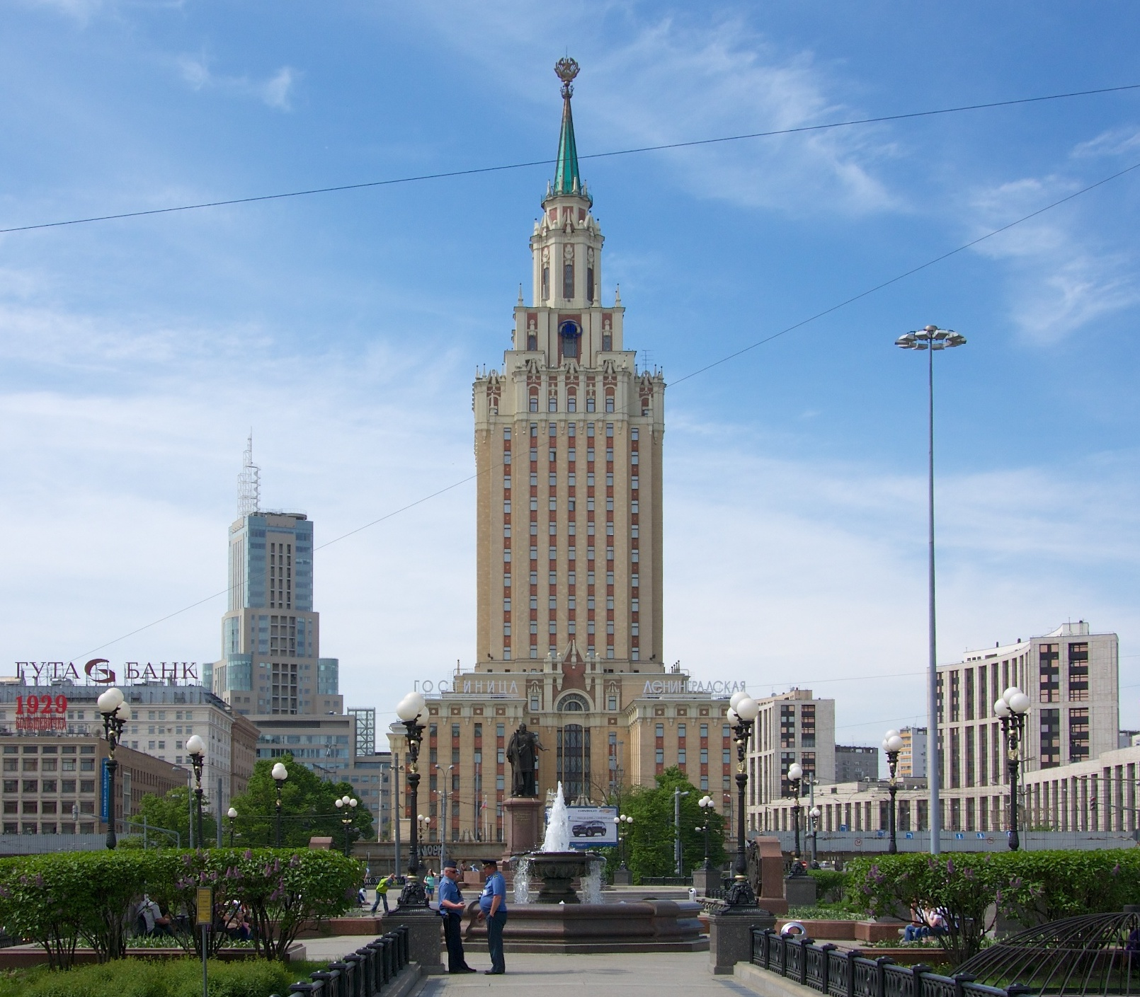 Leningradskaya Hotel / Moscow, Russia